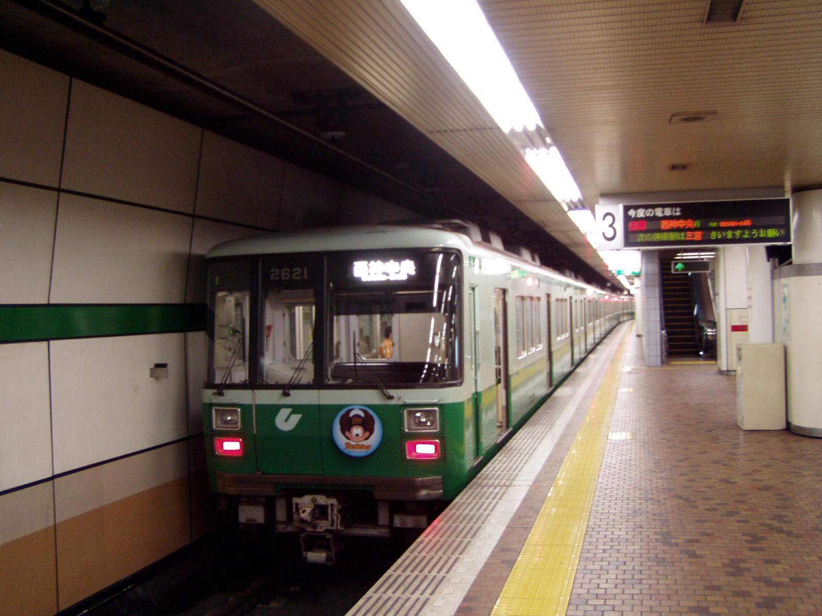 Kobe. Seishin-Yamanote Line train at Shin-Kobe station